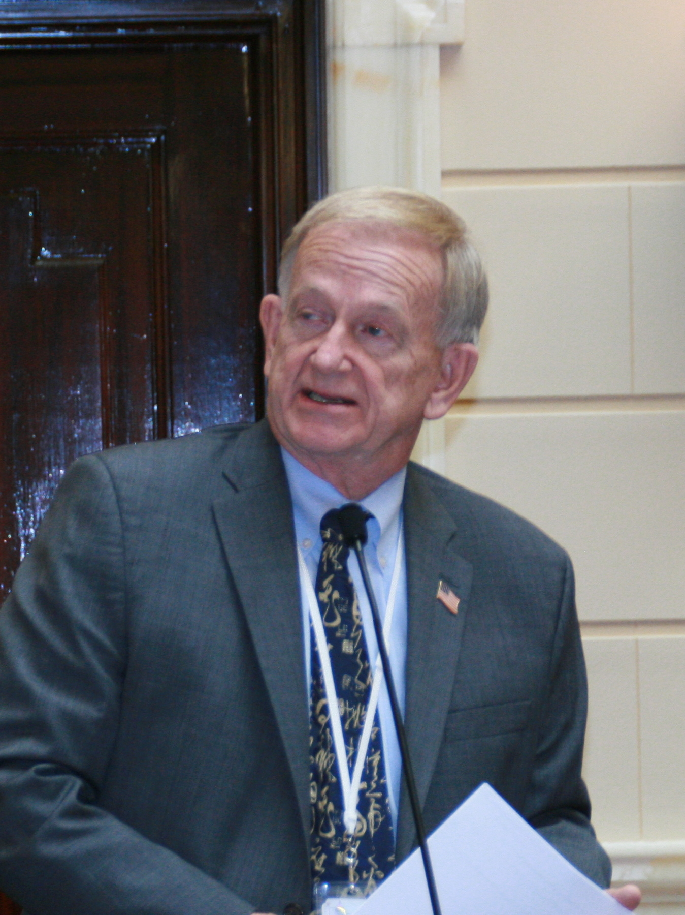 Senator Allen Christensen